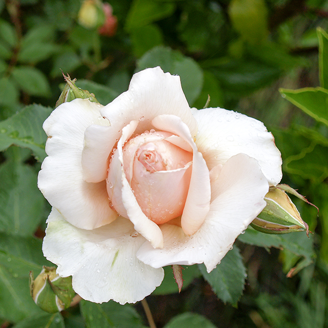 Rosa 'Just Joey'; taken in Mission Viejo, California on June 13, 2013. This apricot-colored hybrid tea rose was voted The World's Favorite Rose in 1994.